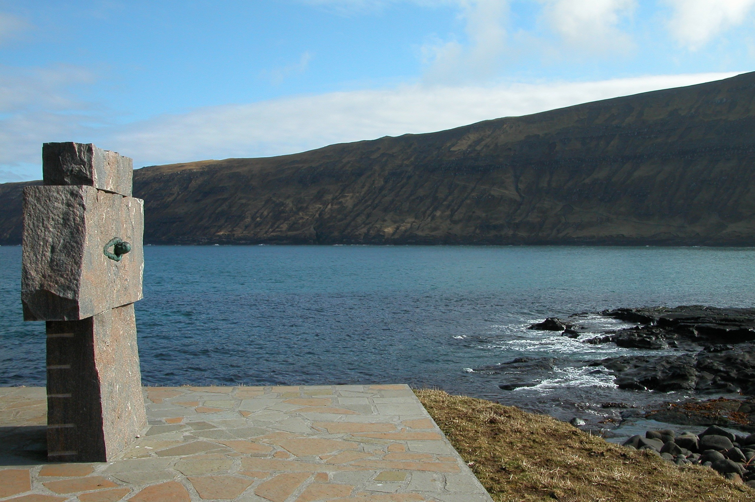 This monument is made in honour of Sigmund Brestisson, who brought christianity to the Faroe Islands 1000 years ago. The monument is made by Hans Pauli Olsen in 2006 and is placed in the village Sandvík in Suðuroy.